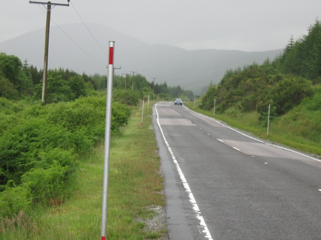 Snow poles, A85, Glen Lochy